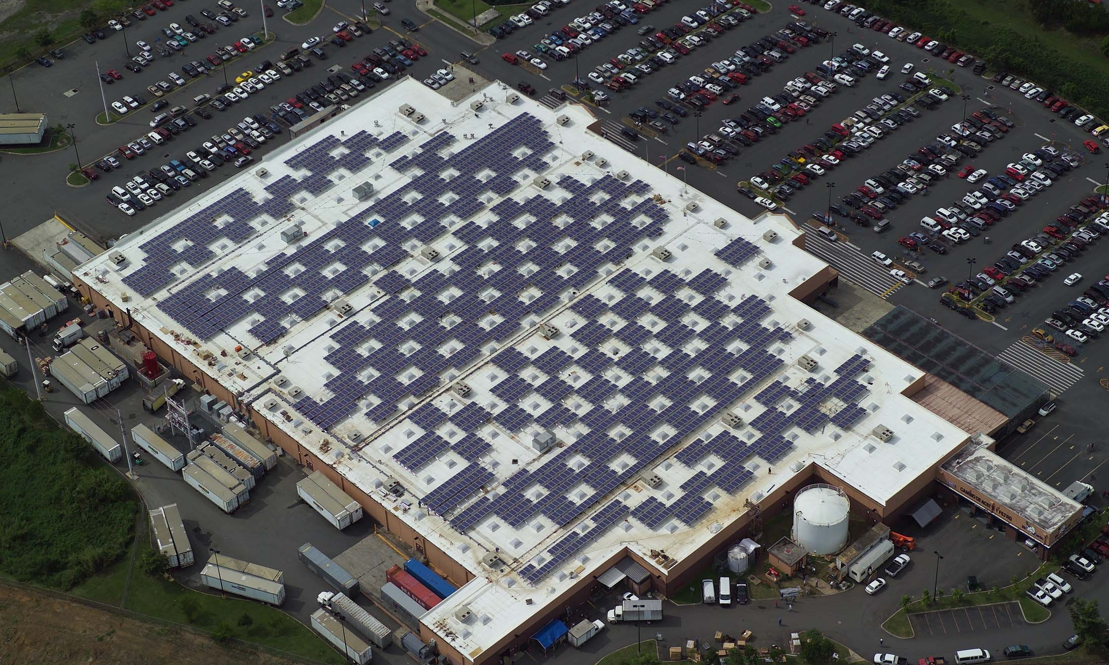 The Walmart Supercenter in Caguas, Puerto Rico is one of five Walmart facilities on the island equipped with solar panels. In addition to Caguas, Walmart added solar to sites in Manati, Bayamon and two in Ponce. Walmart has a company wide goal to be supplied for 100% renewable energy and projects like this are helping move the company closer to its goal.